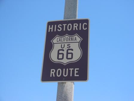 Road sign with route shield for historic Route 66 in California (U.S.).